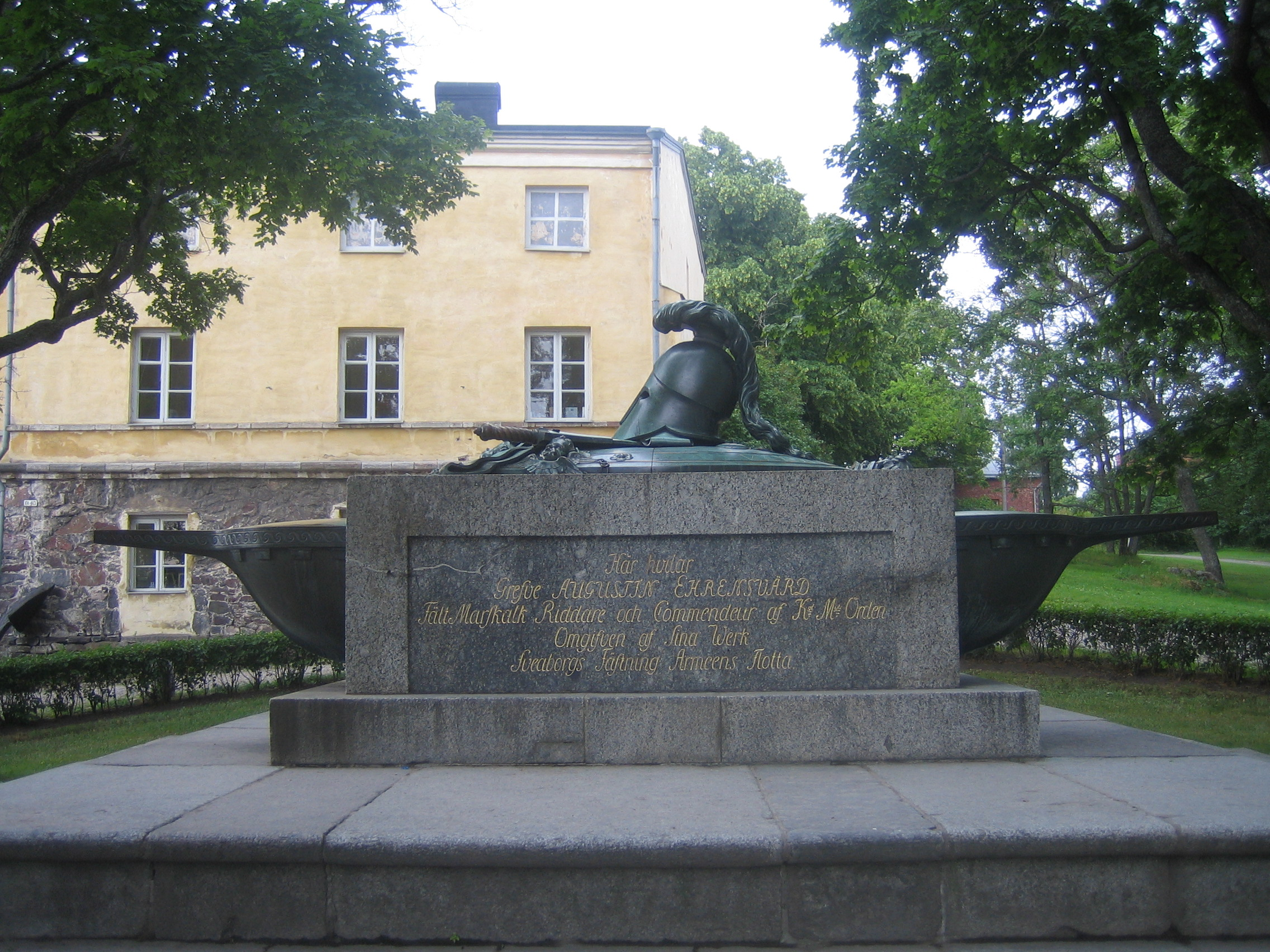 Field Marshal Augustin Ehrensvärd's grave at Suomenlinna. The inscription translates as Here rests count Augustin Ehrensvärd; field marshal, knight and commander of the Royal Order; Surrounded by his works; the Fortress of Sveaborg [and] the Navy of the Army.